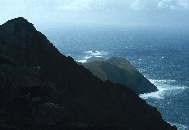 Cliffs at Croaghaun, Ireland